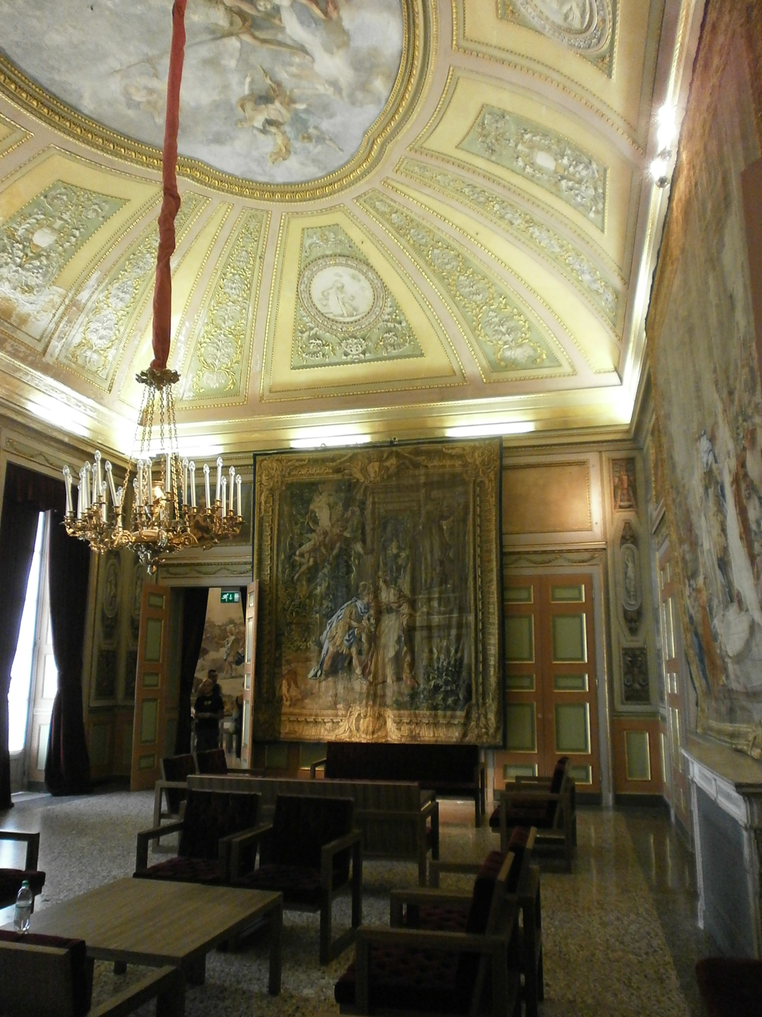 Palazzo Reale (inside) - Milan - Italy